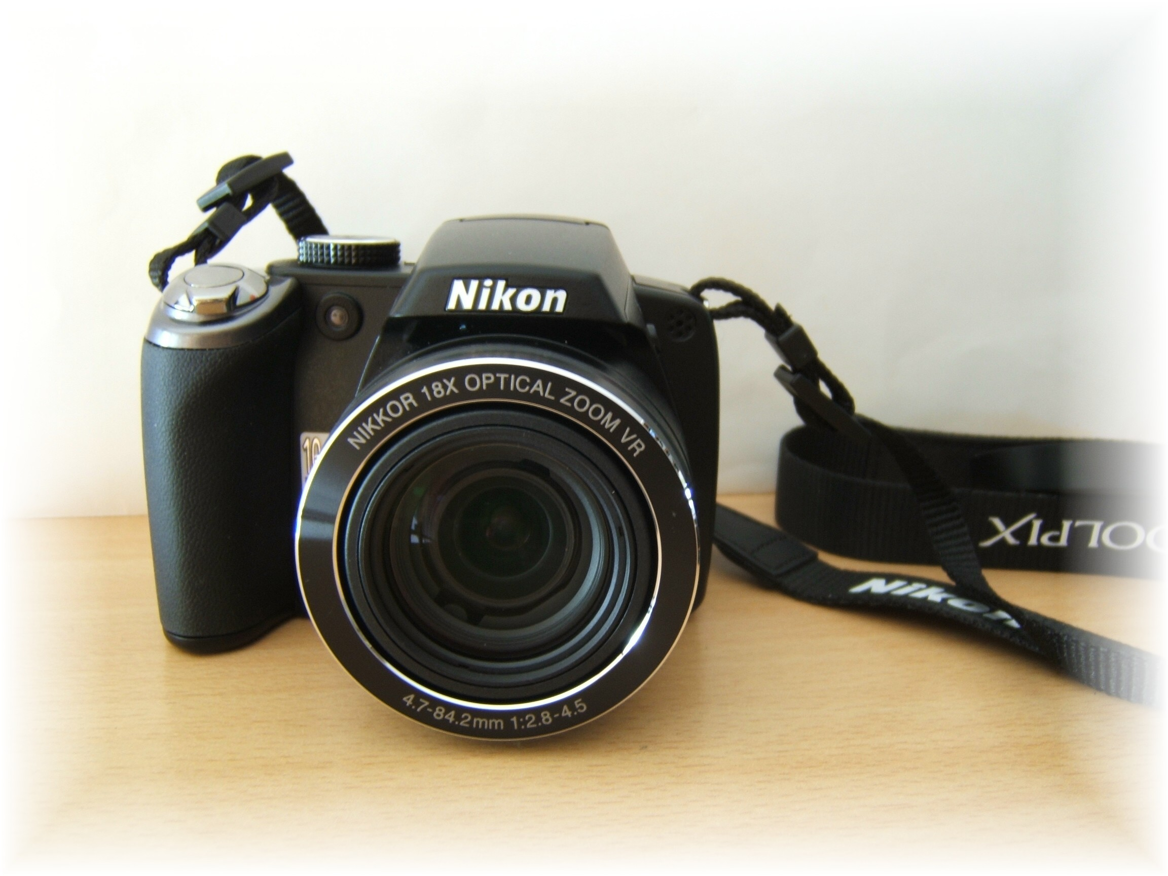 Nikon Coolpix P80 front